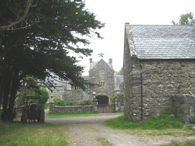 Cors-y-Gedol Gatehouse. Cors-y-Gedol mansion was built in 1576 by Richard Vaughan. Following the fashion of the day, a gatehouse was added in 1630. This, possibly, is the finest gatehouse in North Wales, other examples being mostly vernacular in style. The main house has been added to over the centuries.